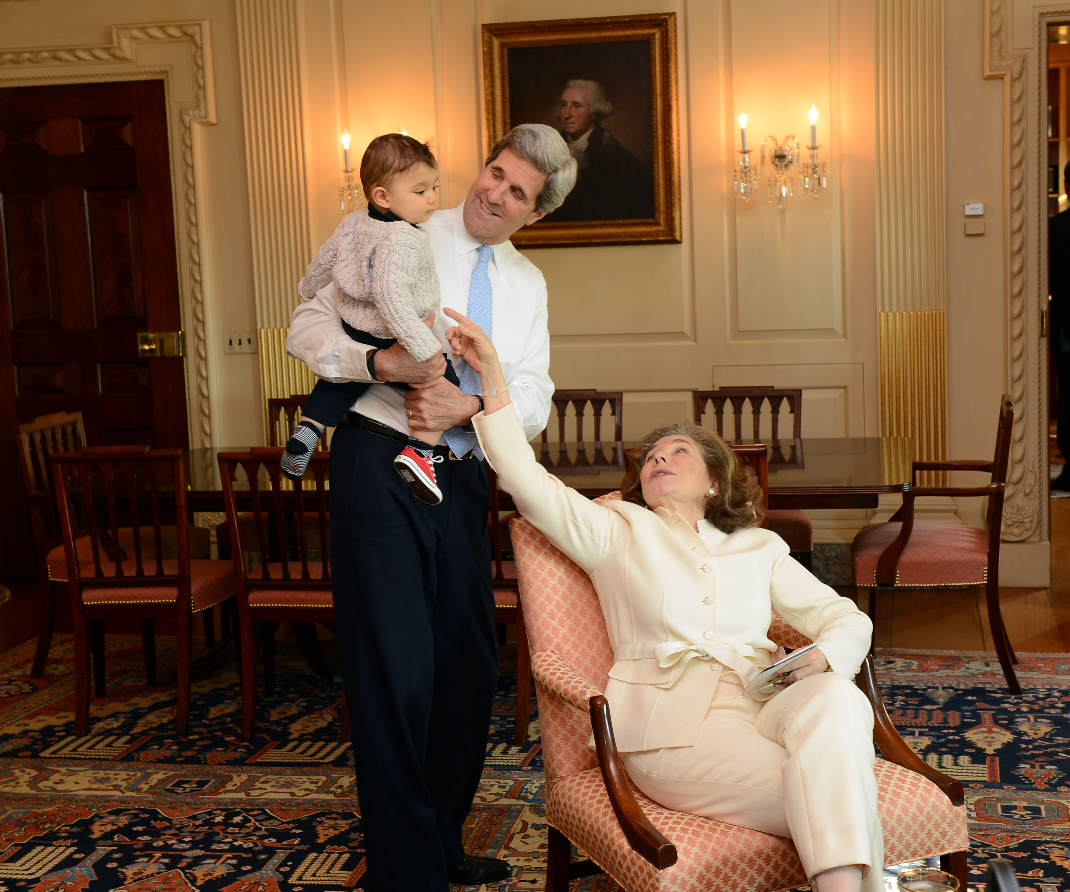 U.S. Secretary of State John Kerry and his wife, Teresa Heinz Kerry, spend a quiet moment with their grandson Alexander in the Secretary's outer office, before his ceremonial swearing-in at the U.S. Department in State in Washington, D.C., February 6, 2013. [State Department photo/ Public Domain]